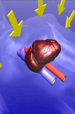 Illustration of the direction of pressure of a thoracic compression on the heart